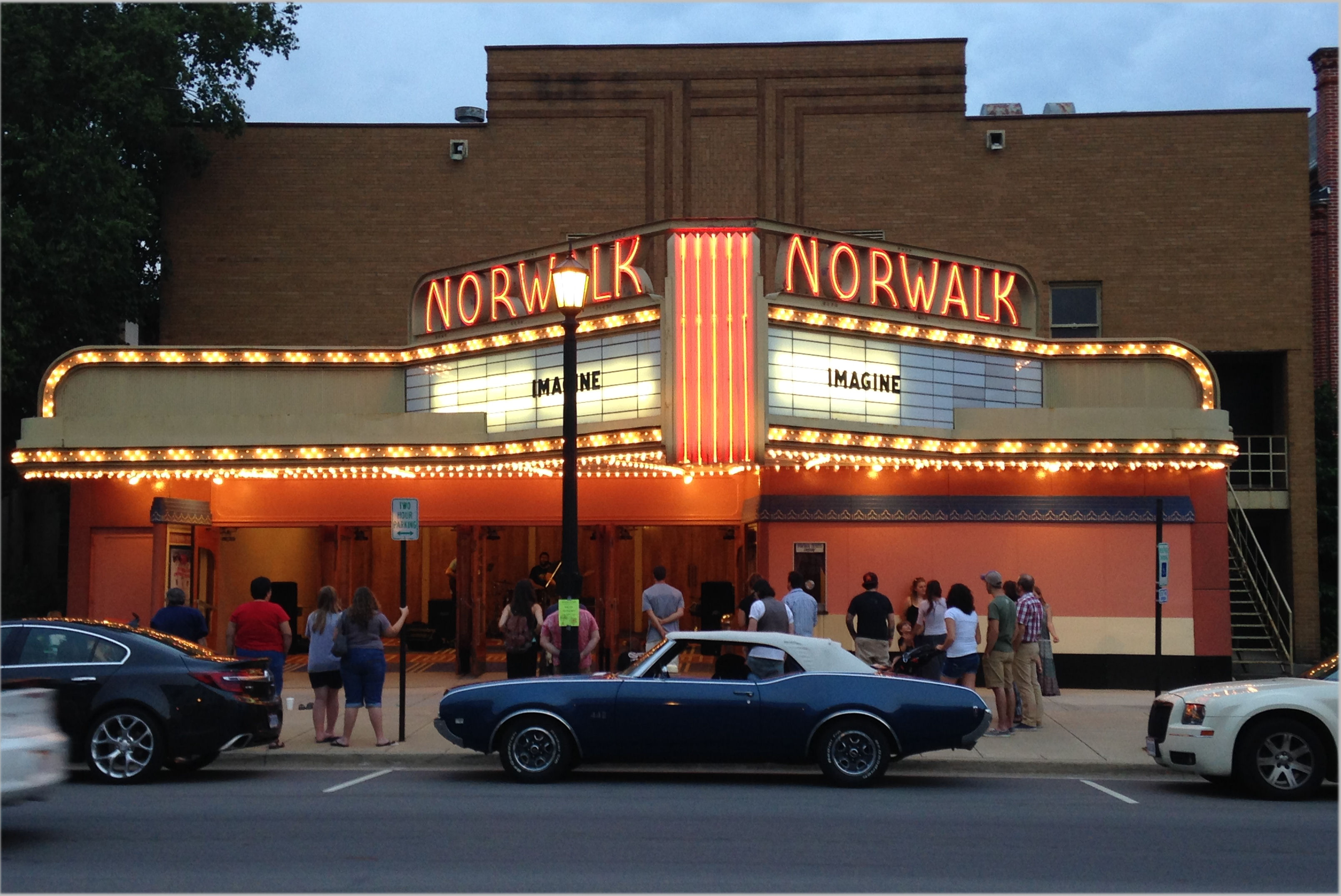 The Norwalk Theatre marquee illuminated during an event.